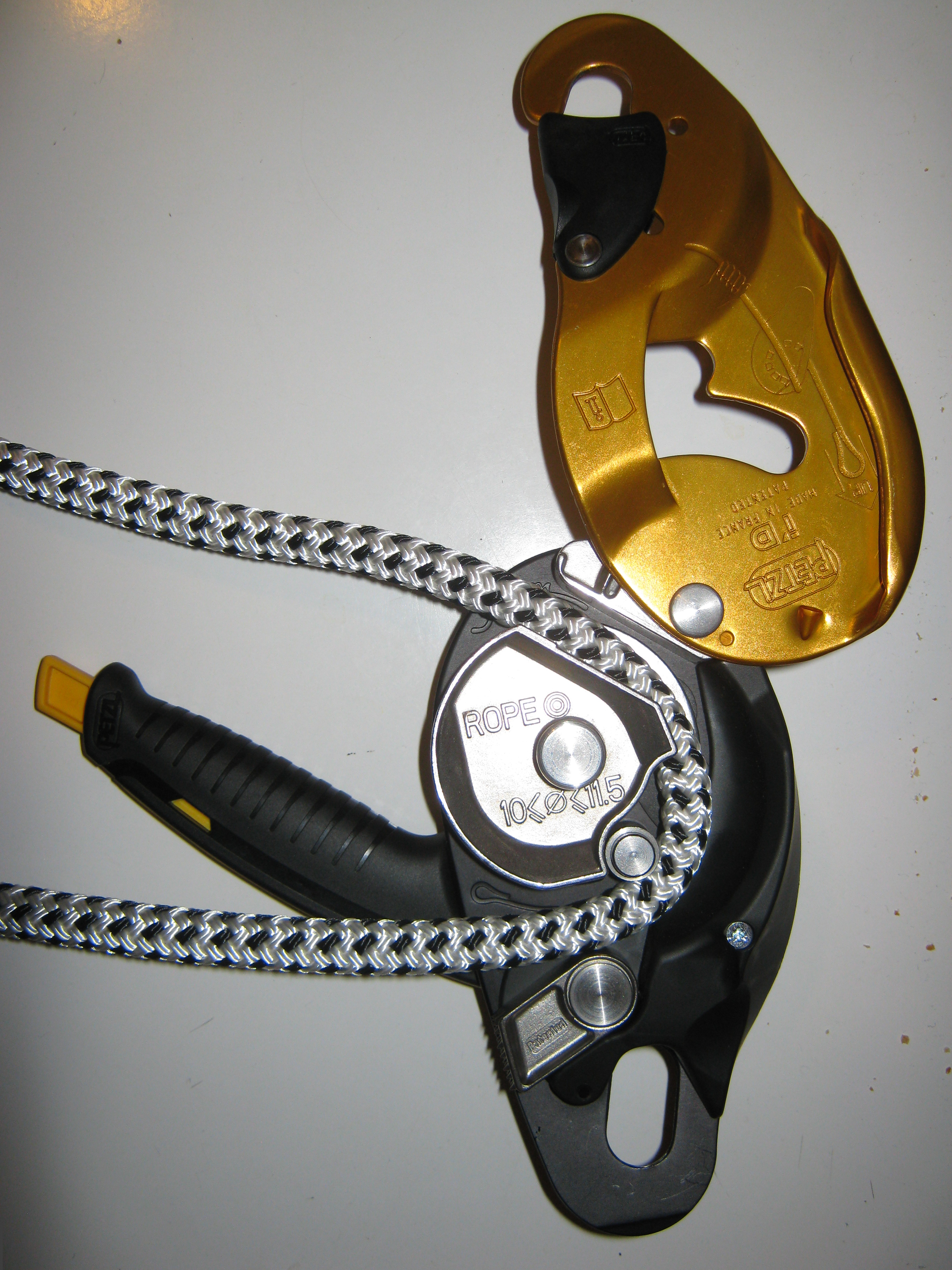 Petzl I'D S inside